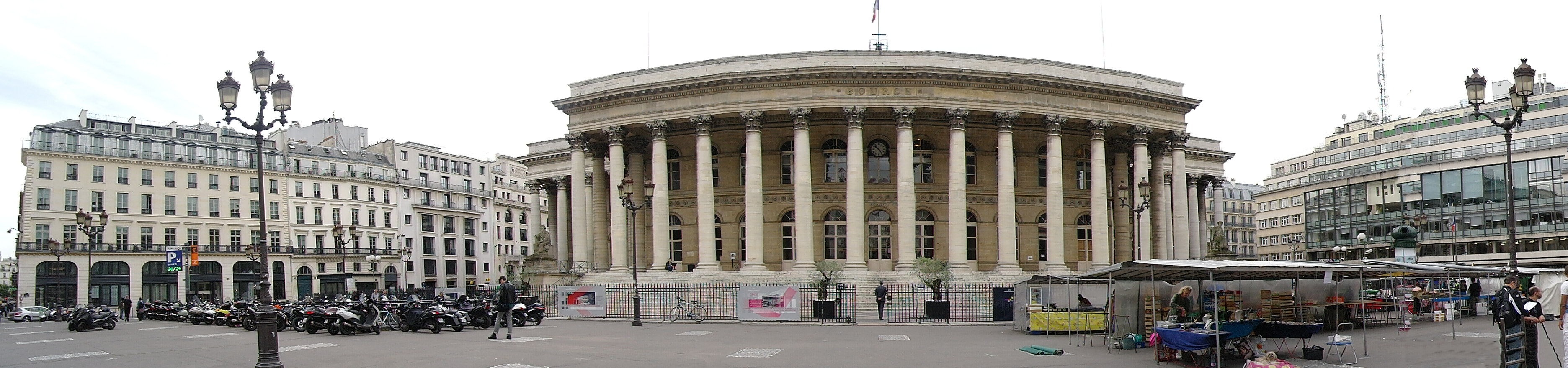 Panoramic photo of Place de la Bourse - The head office of the newspaper L'Obs is to the left